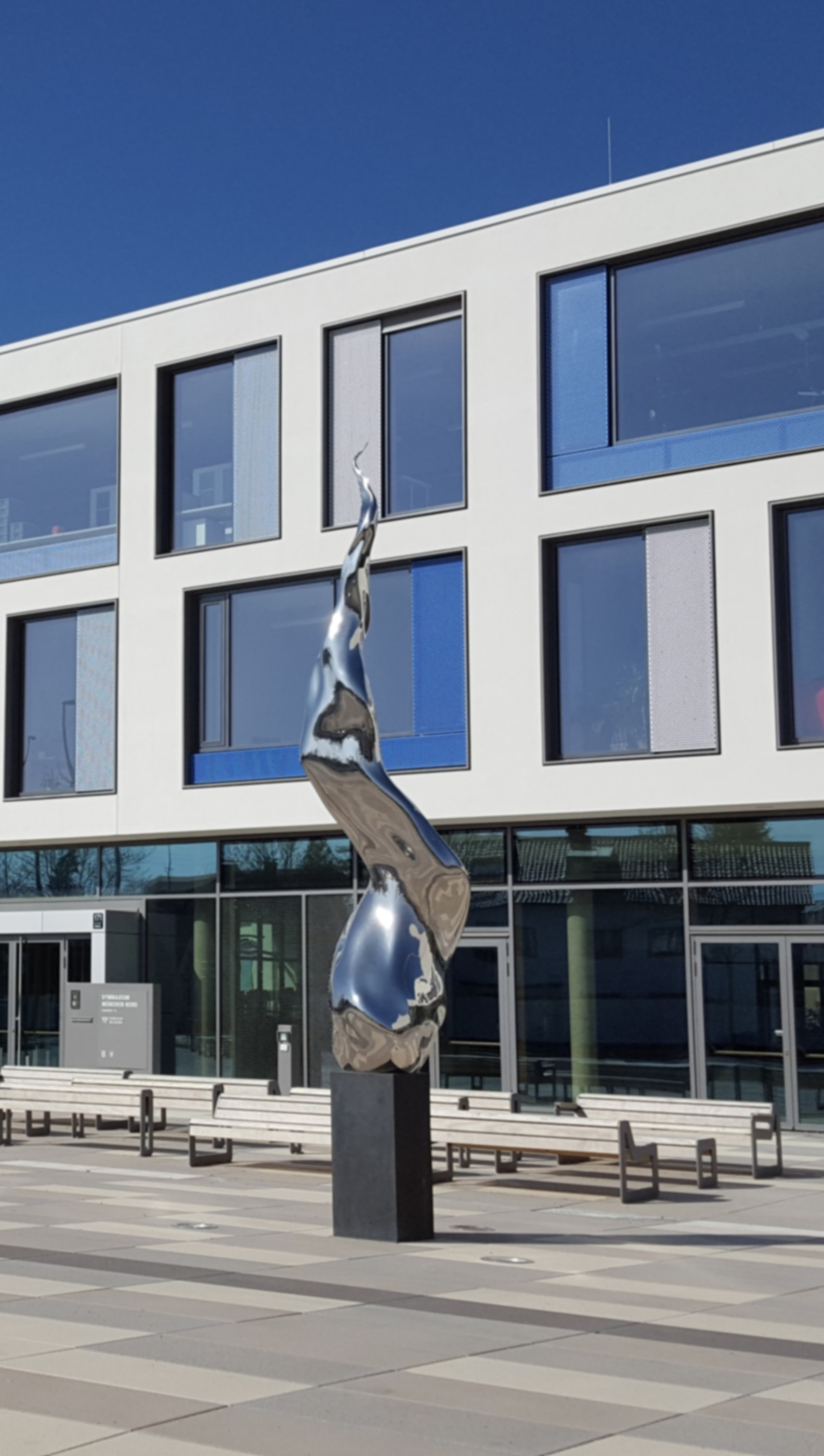 Gymnasium München Nord Skulptur